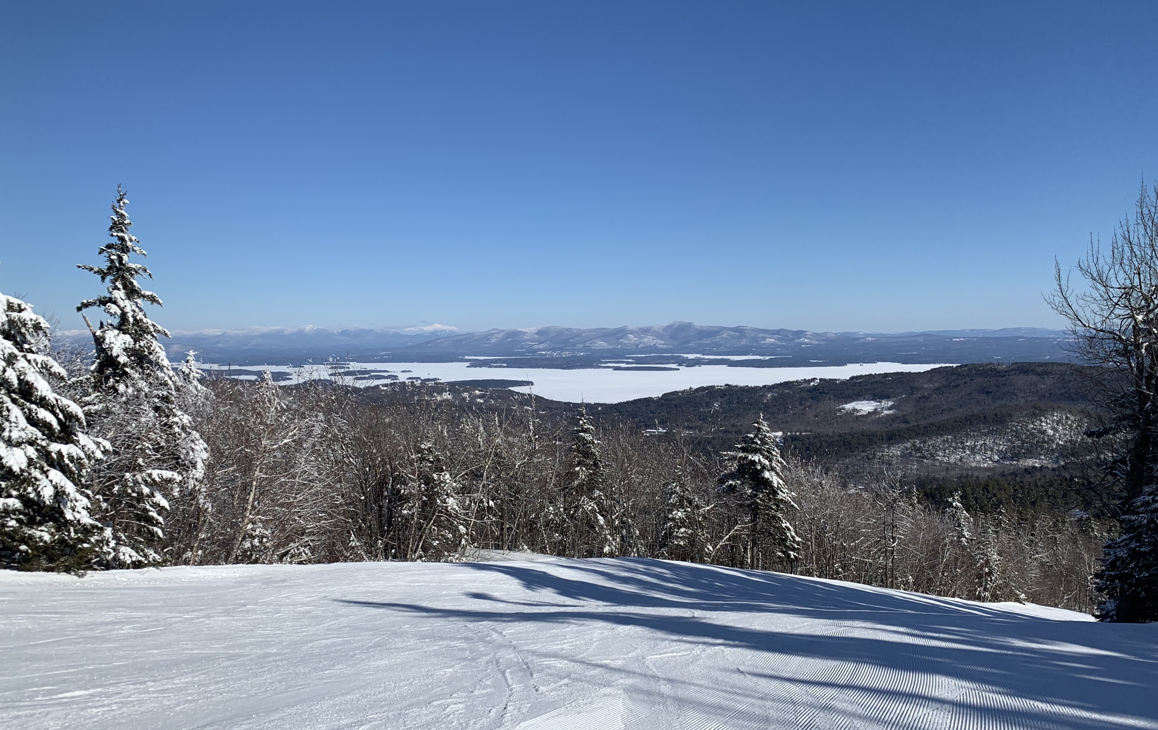 Lake Winnipesaukee seen from Gunstock Mountain Resort, Guilford, New Hampshire, February 12, 2020